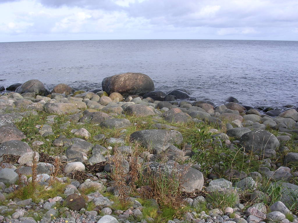 Coast of Juminda peninsula, looking north